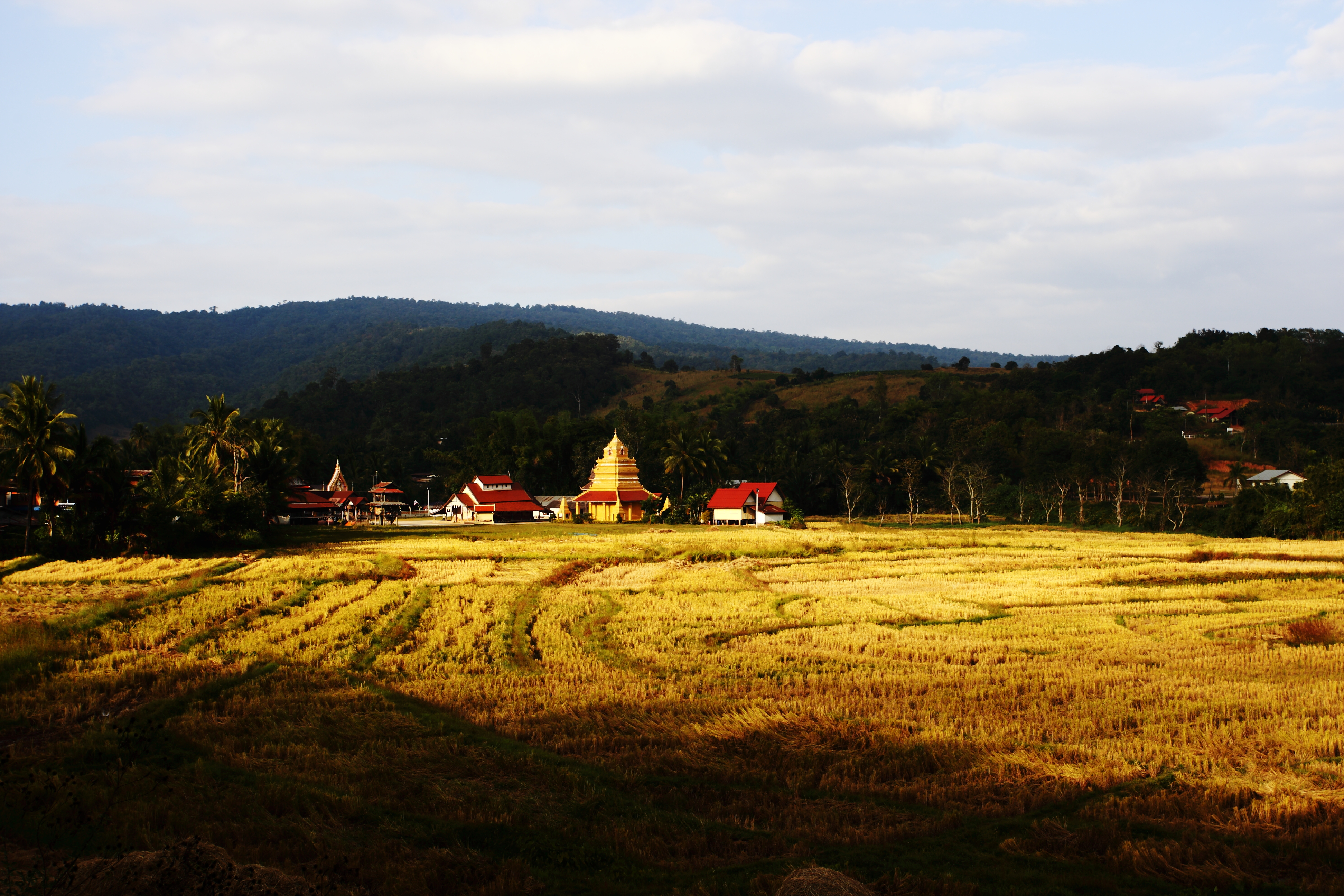 Nahaew district